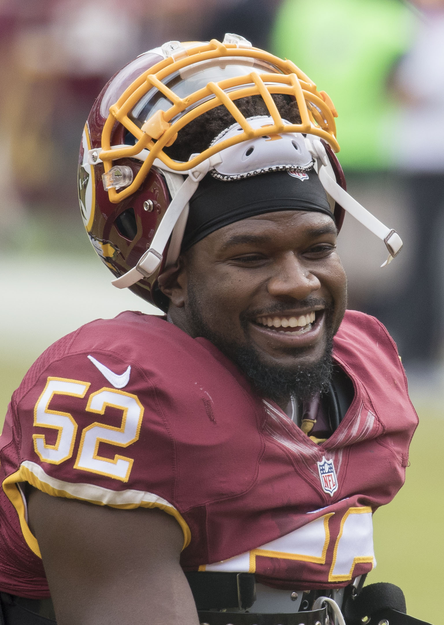 Browns at Redskins 10/2/16